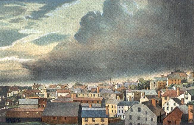 Thunderstorm at Marblehead, MA; from a c. 1910 postcard.